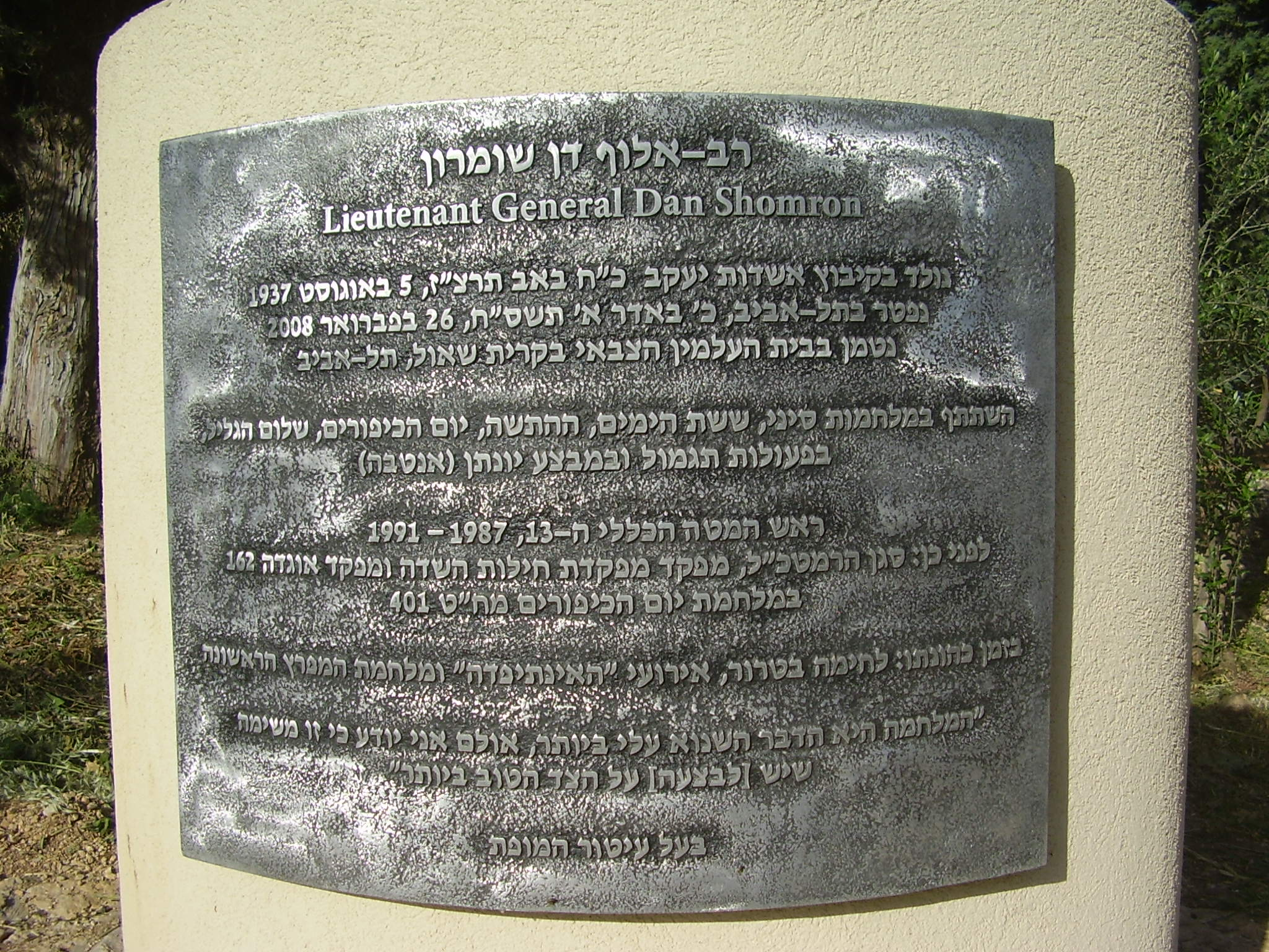 memorial to dan shomron, chief of staff of i.d.f, in latrun